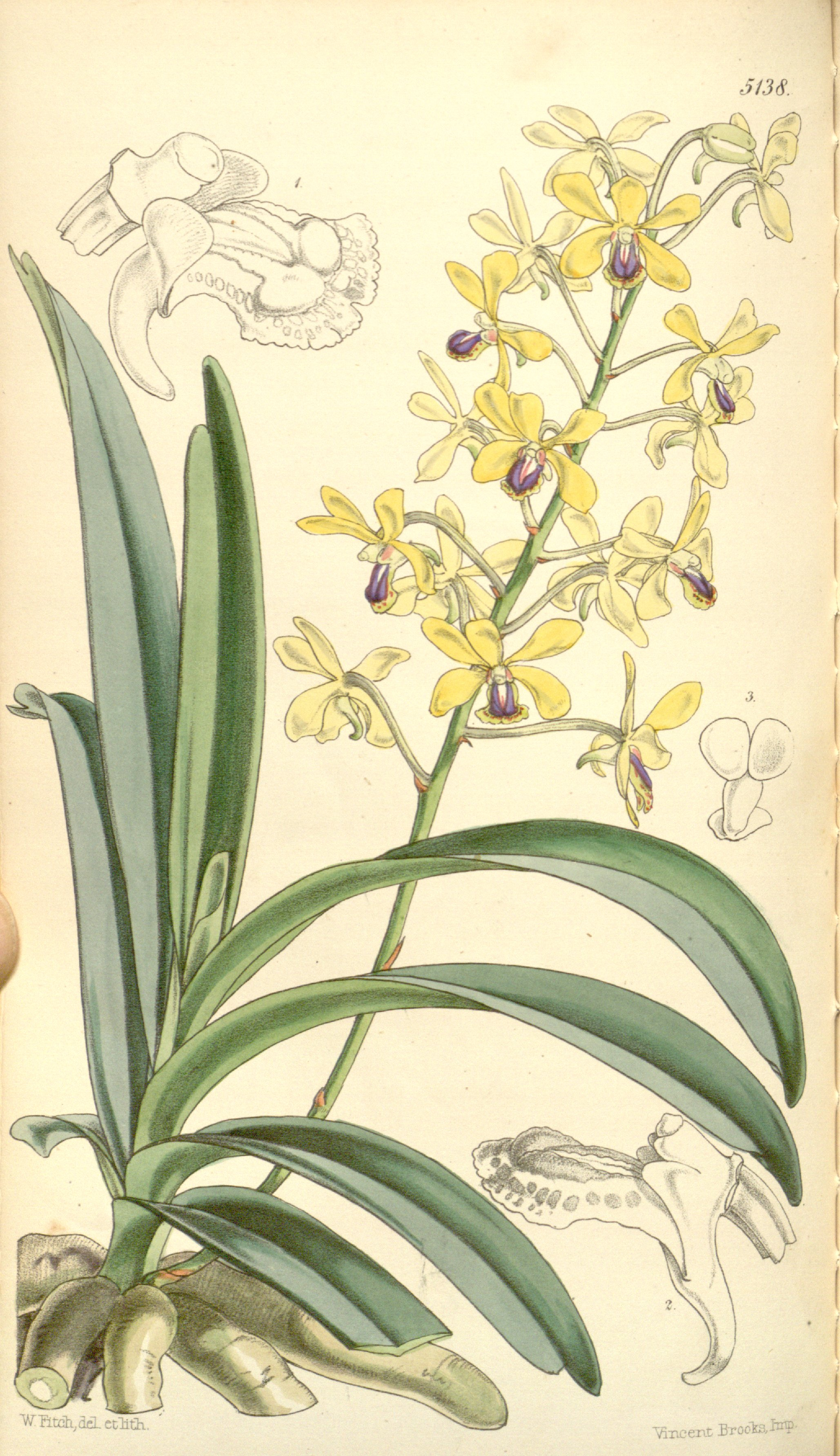 Illustration of Vanda testacea (as syn. Aerides wightiana, in this plate written as Aerides wightianum)